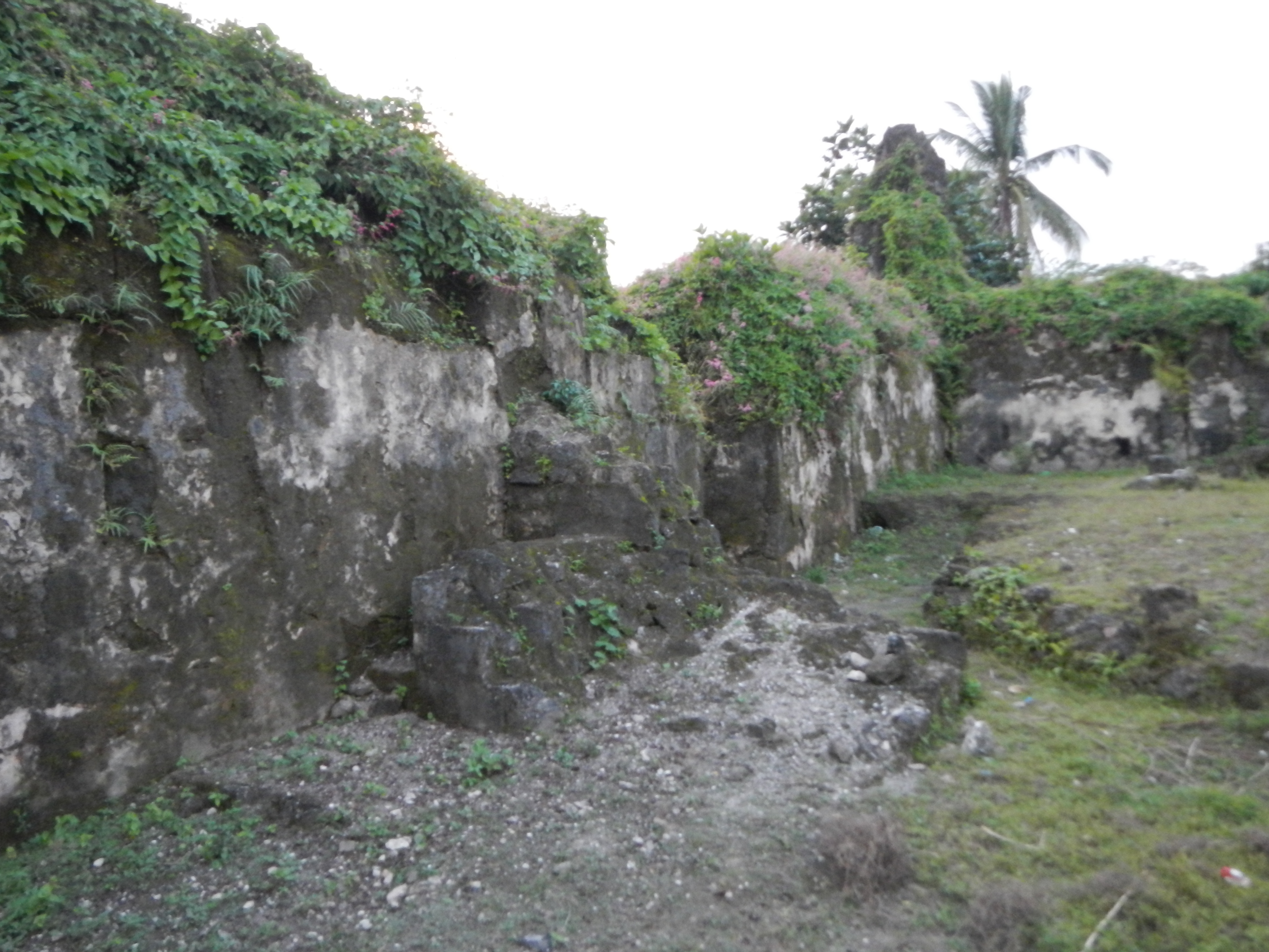 Upload Wizard photos of - Old Church ruins, of - Saint Nicholas of Tolentino Parish - San Nicolas De Tolentino Parish Church of San Nicolas, Batangas,[1] Poblacion Barangay III Vicariate II – St. John Maria Vianney belongs to the Roman Catholic Archdiocese of Lipa[2] - San Nicolas, Batangas[3] (a fifth class municipality in the province of Batangas, [4]Philippine, latest census, a population of 19,046 people in 2,946 households, the smallest municipality in Batangas with 14.34 square kilometers of land area, which includes half of the Taal Volcano island politically subdivided into 18 barangays.[5]).